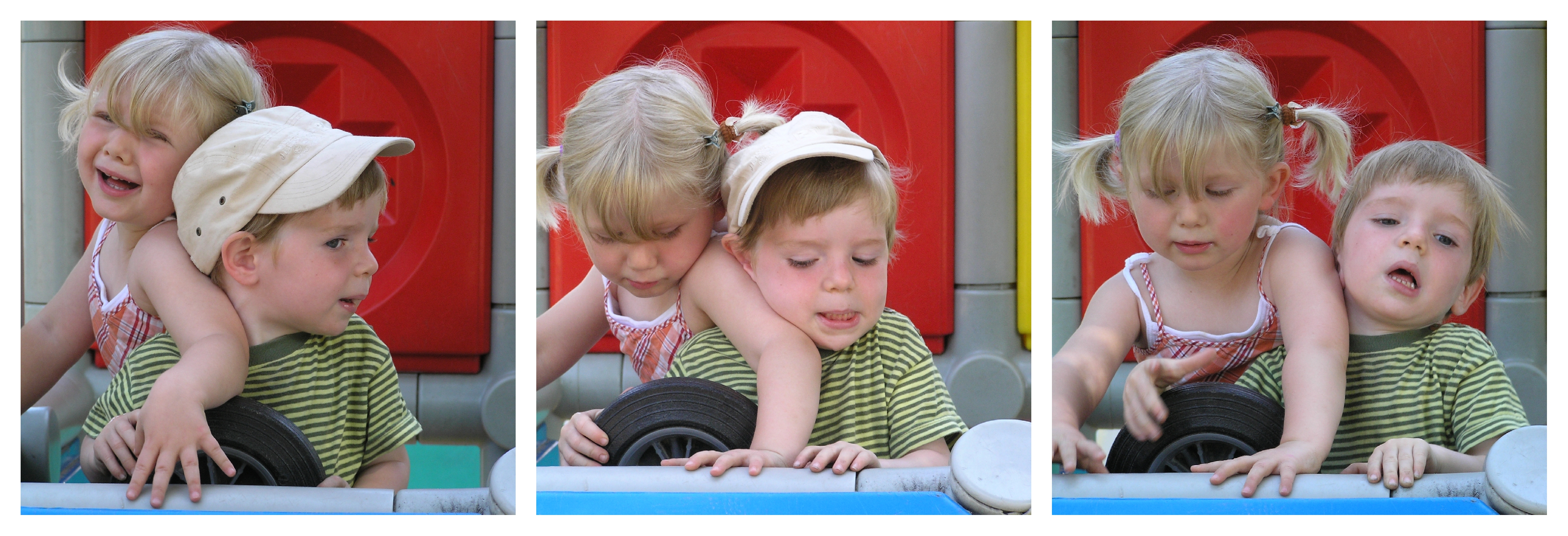 Envy and anger between children.